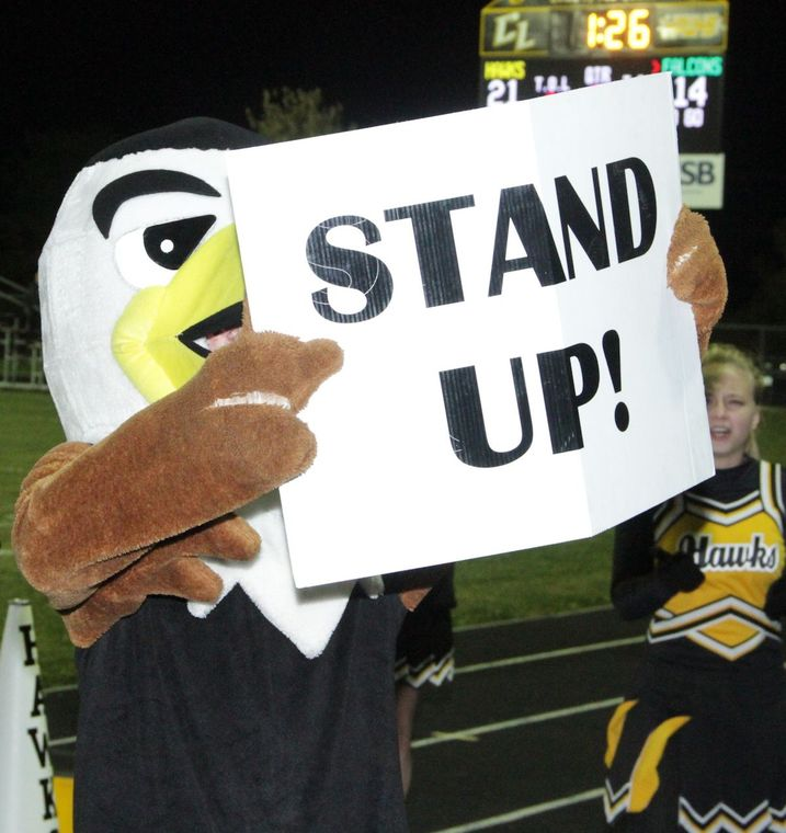 this is the mascot for clsd